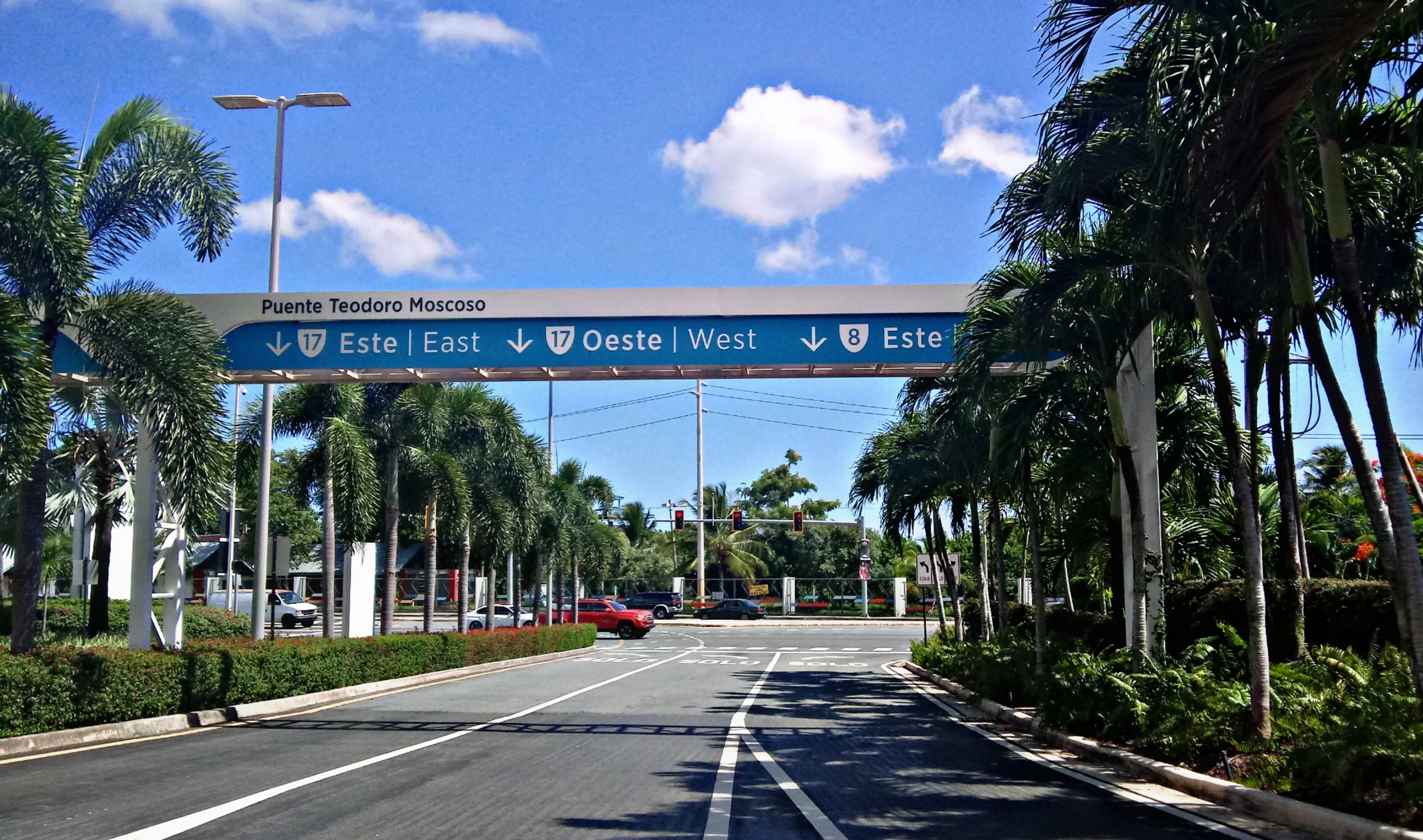 PR-17 at the Puente Teodoro Moscoso near the Mall of San Juan, Puerto Rico